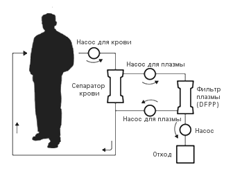 dfpp